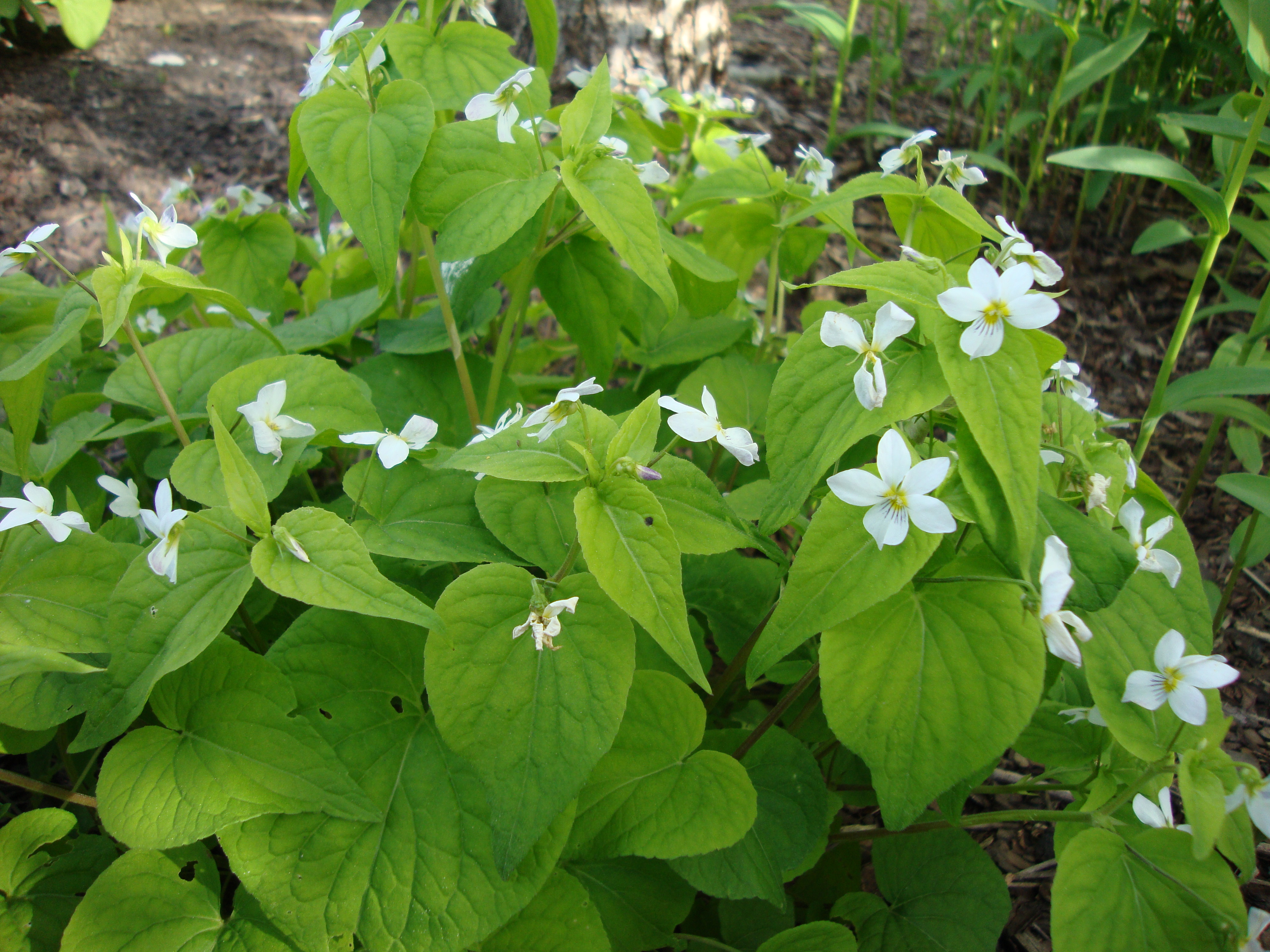 Canadian white violet (Viola canadensis) in Helsinki University Botanical Garden in Kumpula